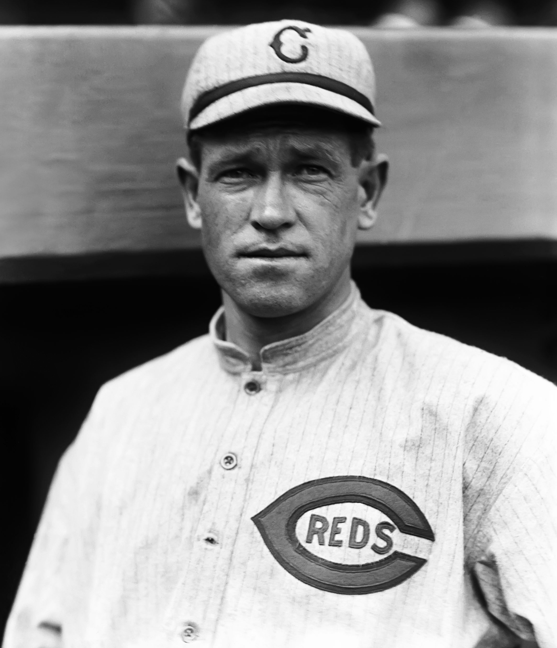 Professional baseball player Hal Chase